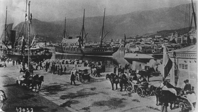 Feodosiya's port in 1914.